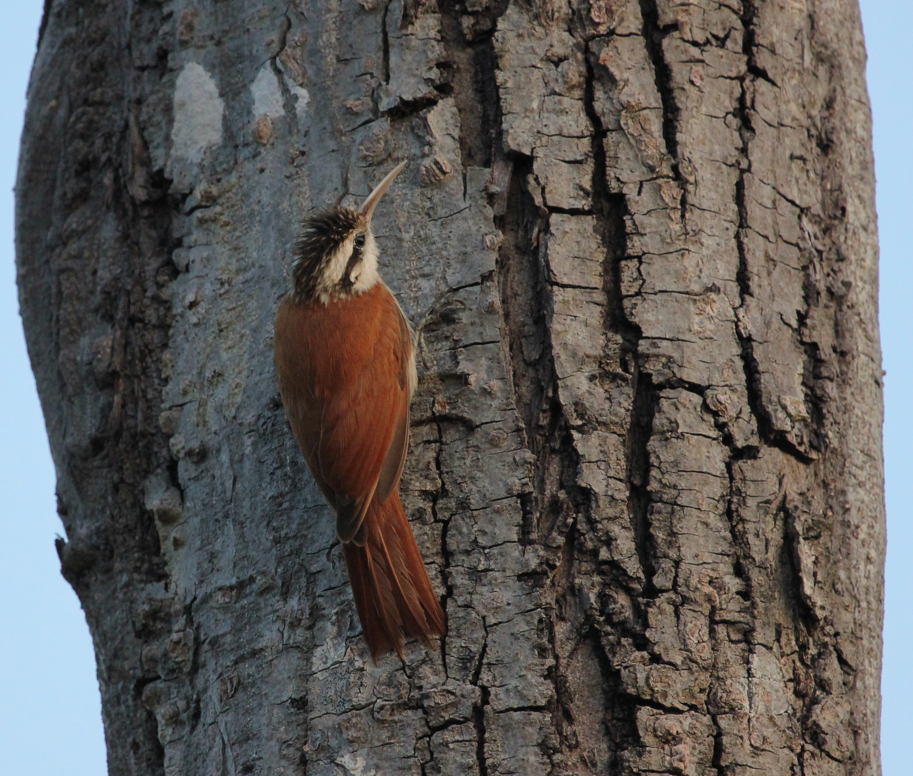 Narrow-billed Woodcreeper (Lepidocolaptes angustirostris) in the Pantanal